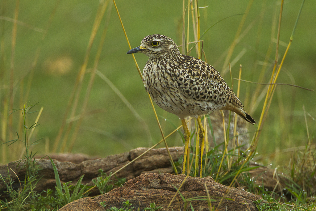 Spotted Thick-knee - Kenya_S4E0748